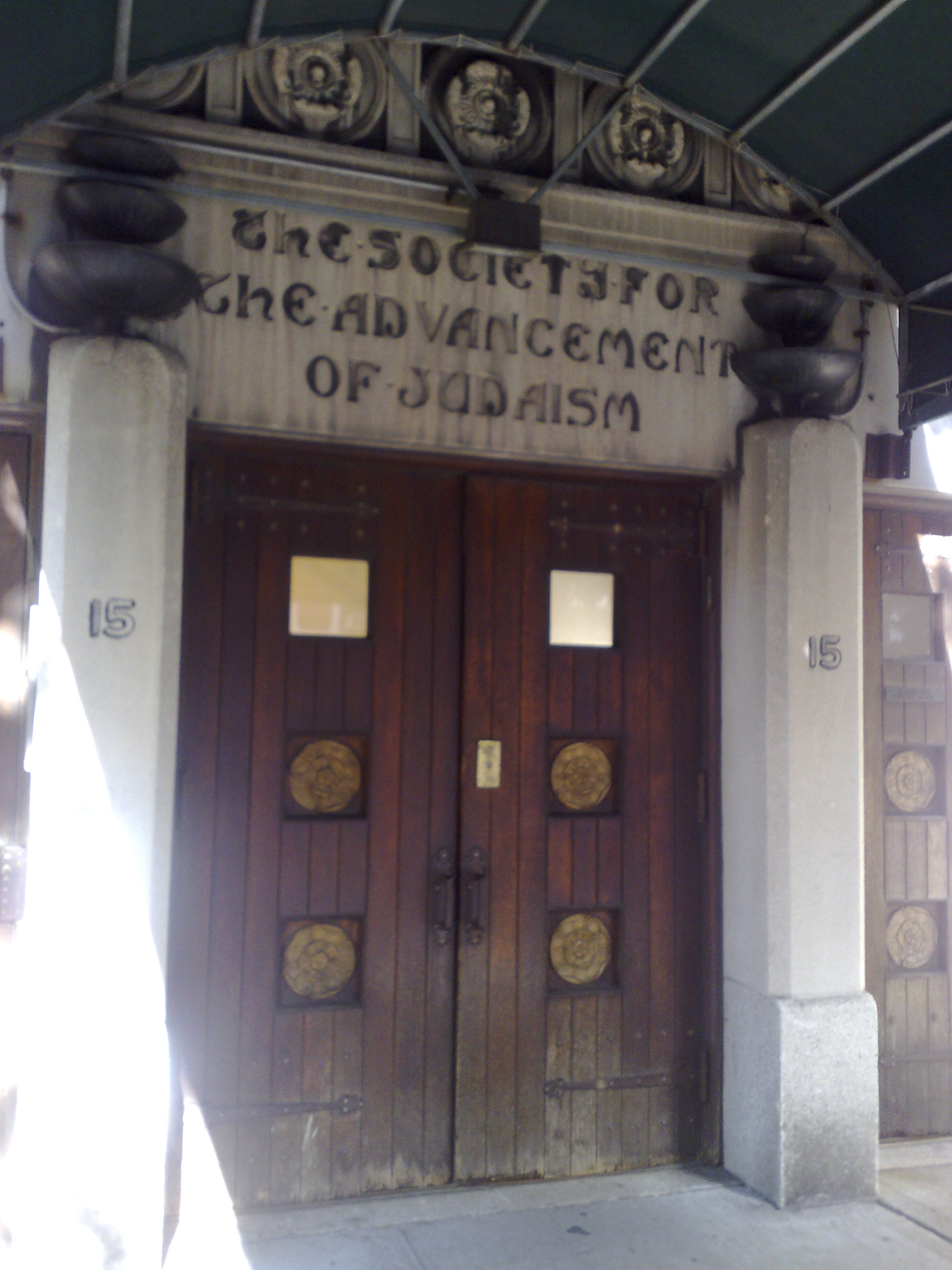 This photo is of Wikis Take Manhattan goal code A24, Society for the Advancement of Judaism.